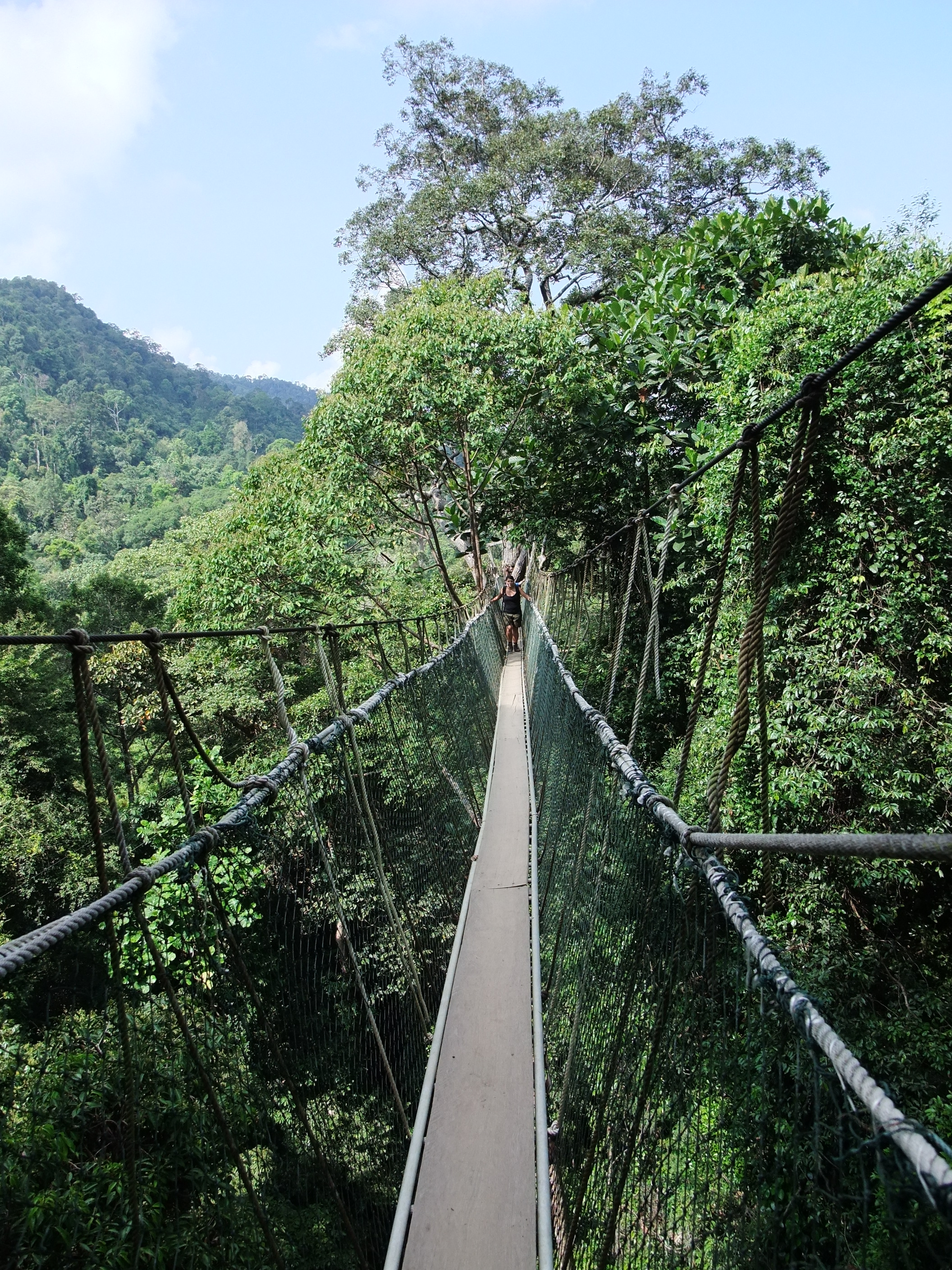 Canopy Walkway in the Taman Negara National Park, Malaysia